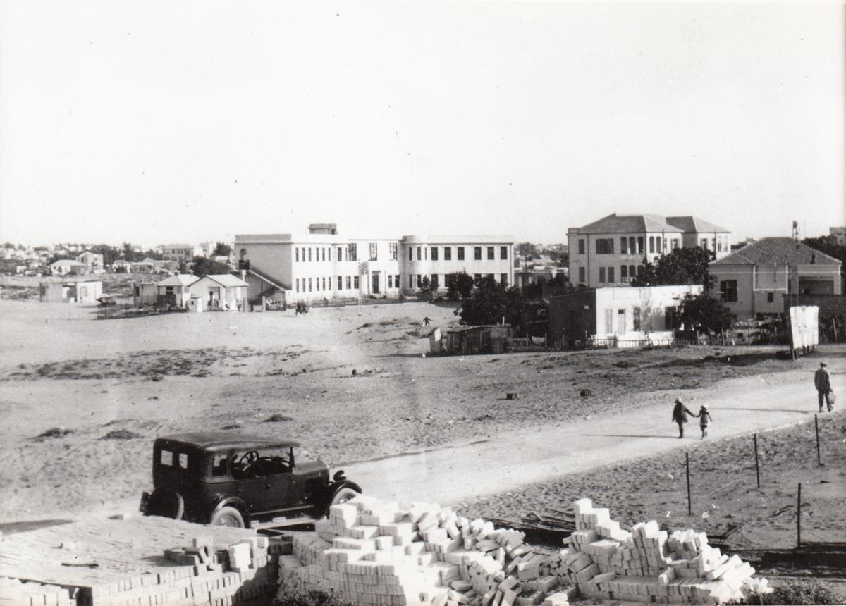 1930-1931. View from the construction site of Villa Peniel (Ben Yehuda 77-79) to the southeast. The big building in the middle of the picture is the Tel Nordau School . Photo courtesy of Mrs. Nava Chen. Thanks to Shula Vidrich.